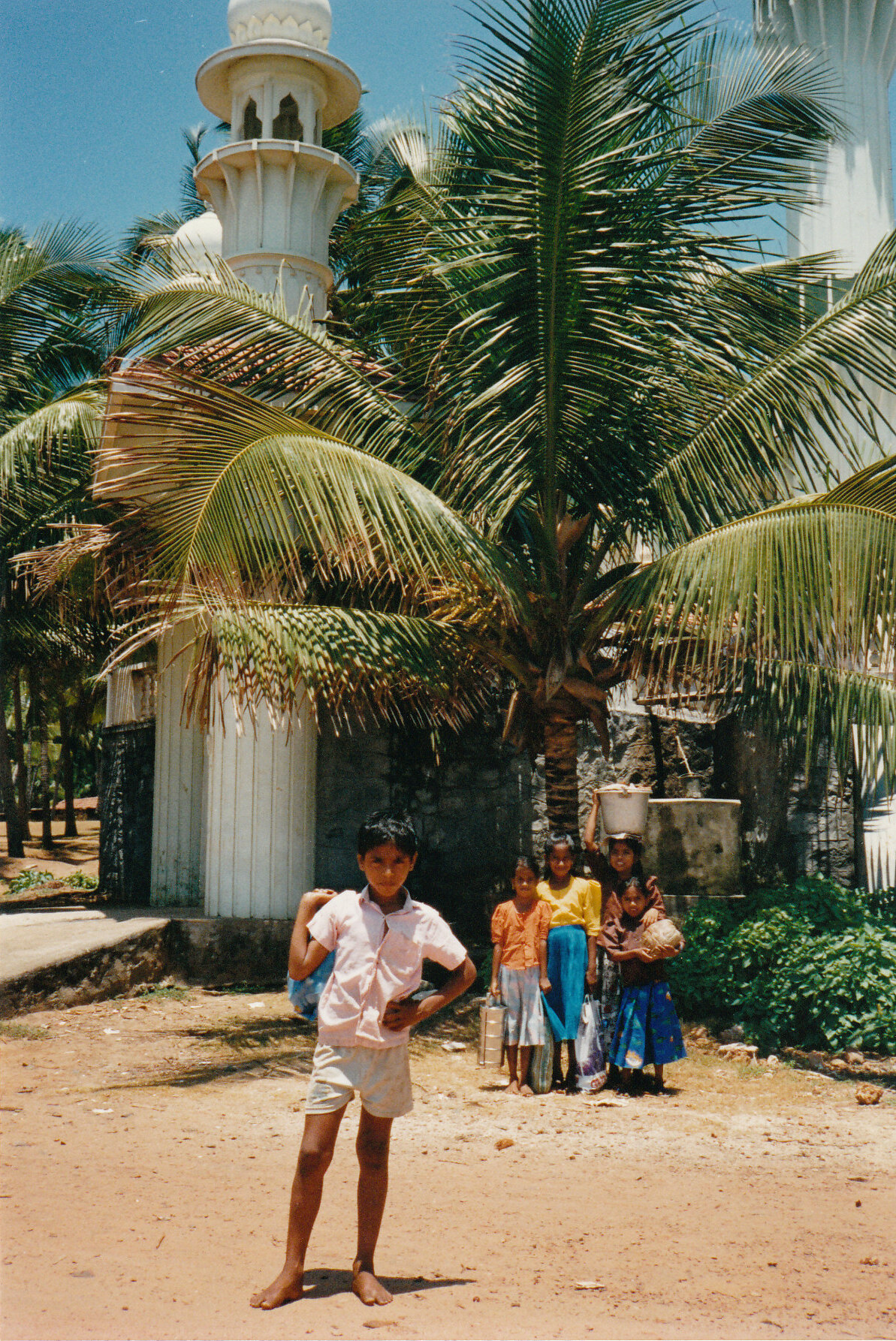 Children in front of a mosque near Varkala (Kerala)